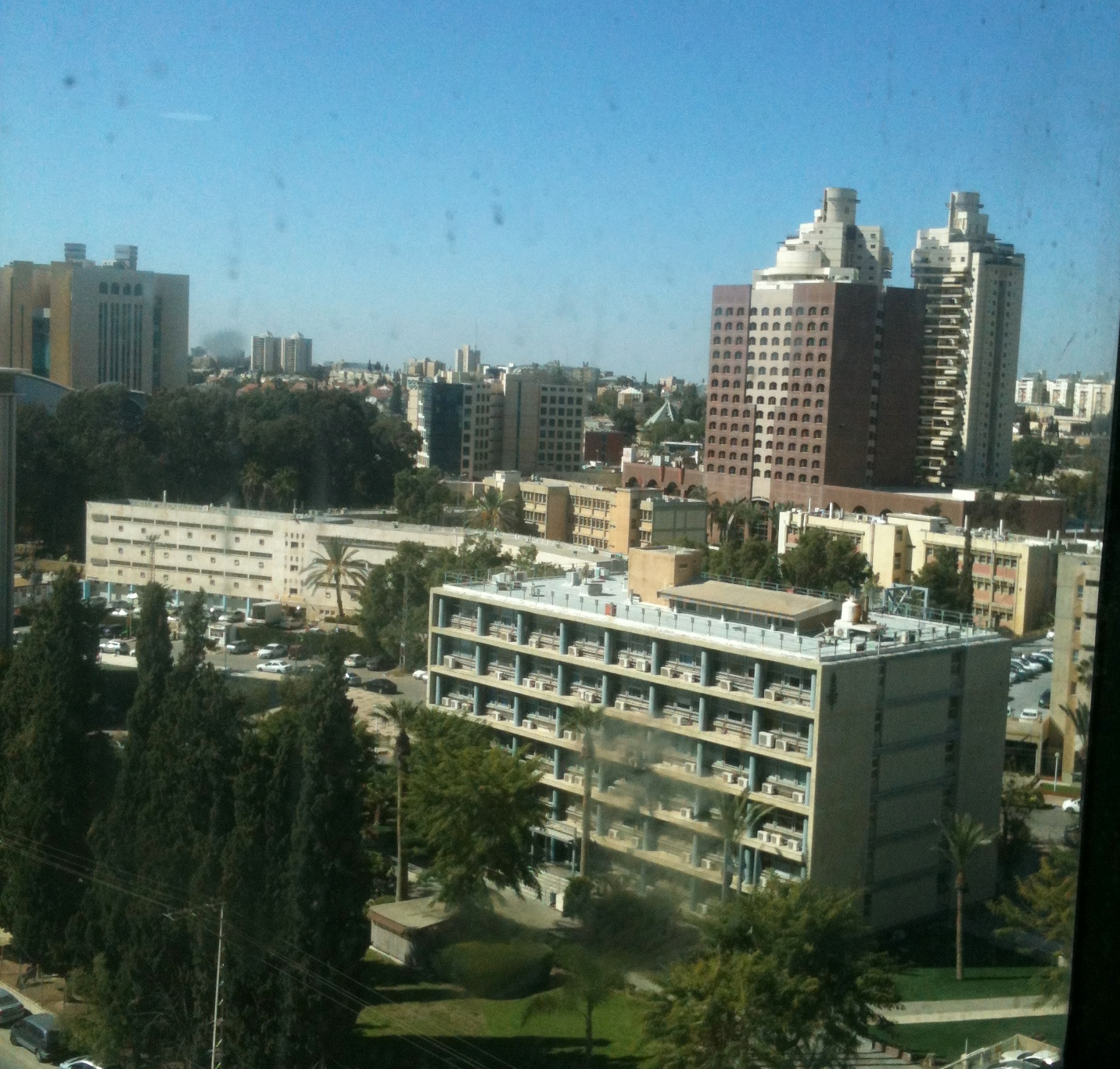 Beer Sheba, Israel